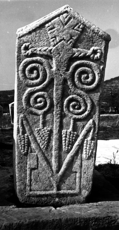 an old photo of medieval stećak in Široki Brijeg